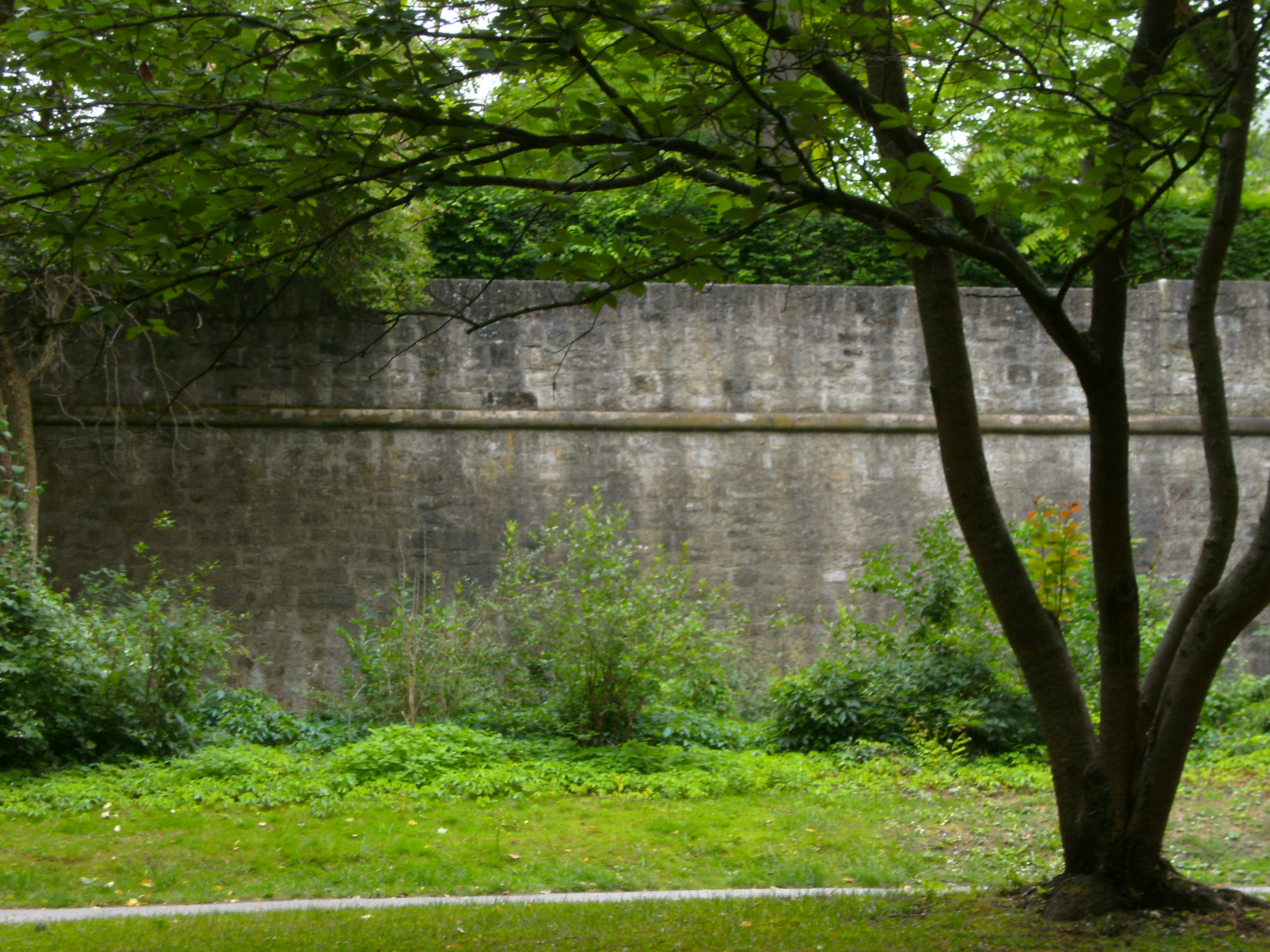 Würzburg, Germany: Ringpark around the city: Rear wall side of Residenzgarten. Ringpark/Rennweg.